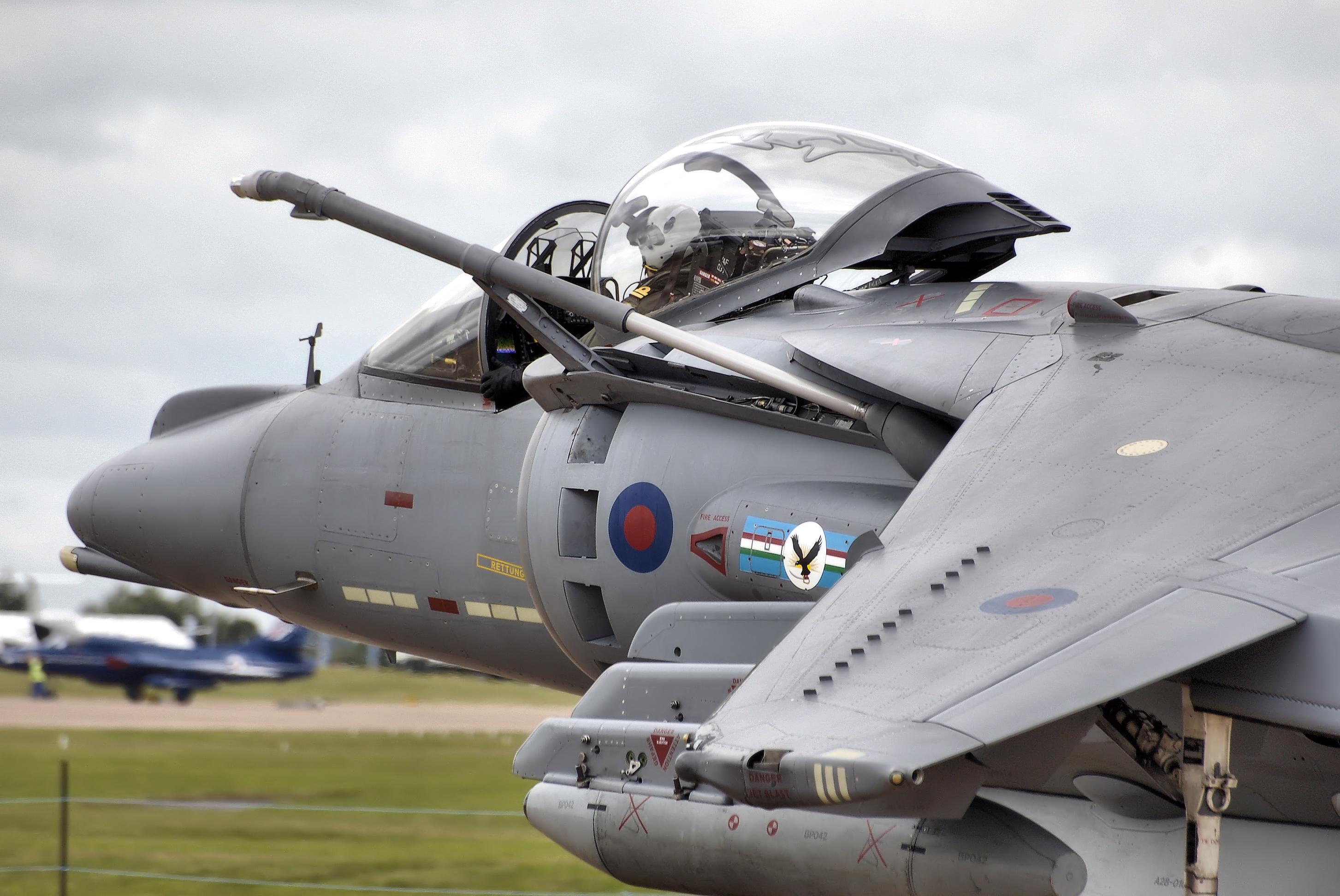 British Aerospace Harrier GR9 (code ZG502) taxis after landing at the Royal International Air Tattoo, Fairford, Gloucestershire, England. Taken at RIAT Fairford on the Thursday before the weekend show days. Later, both show days (Saturday and Sunday) were cancelled because of waterlogged car parks.